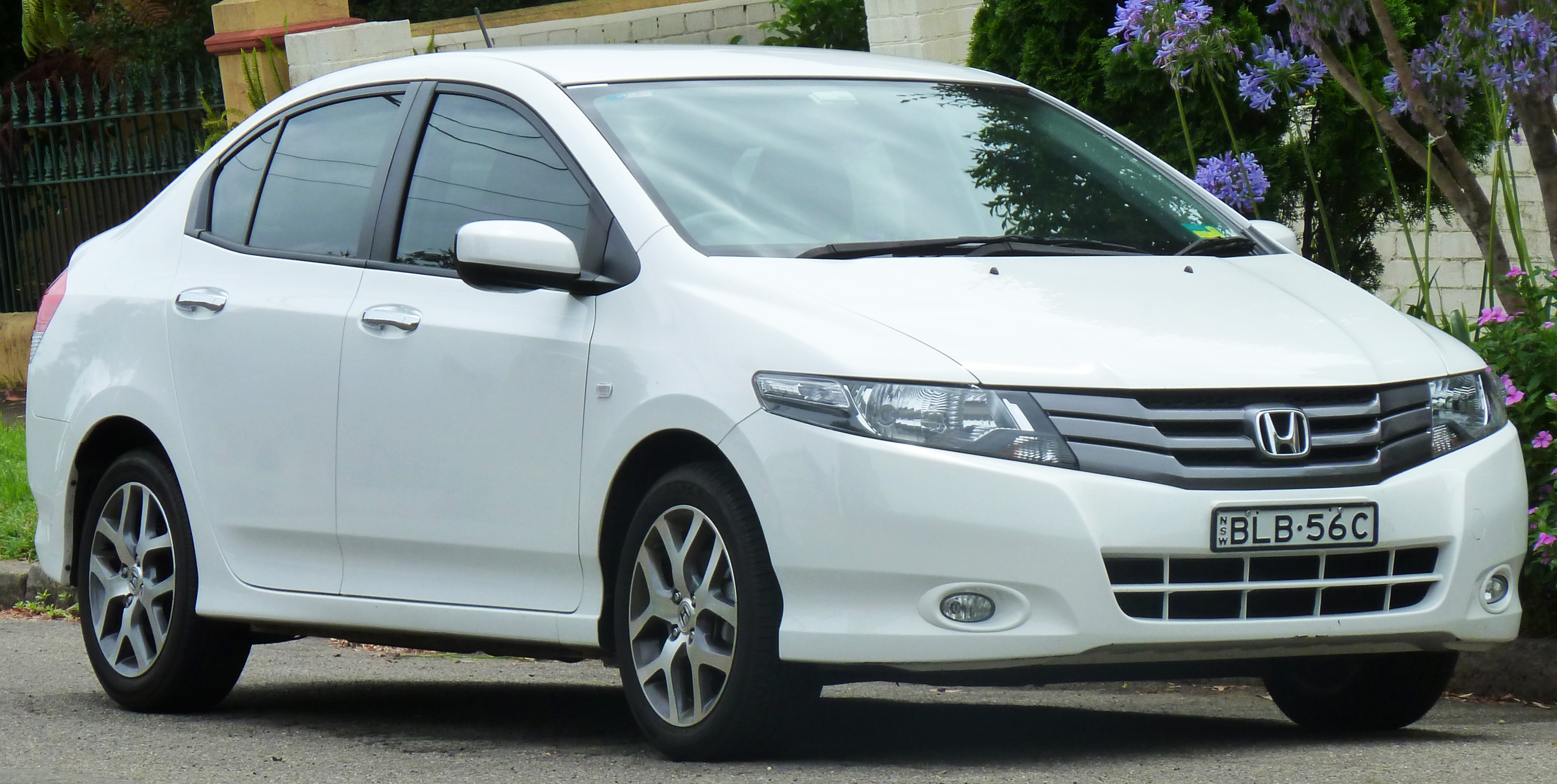 2009 Honda City (GM2 MY09) VTi-L sedan. Photographed in Stanmore, New South Wales, Australia.